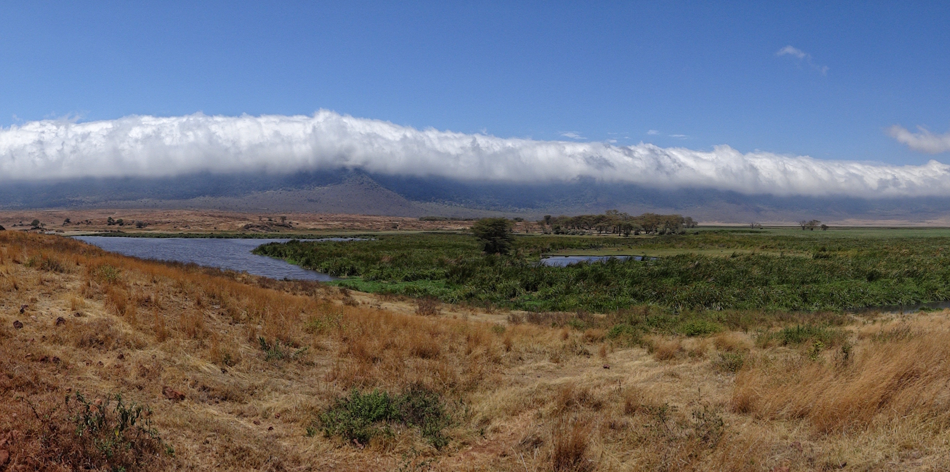 The view from the bottom of the Ngorongoro Crater towards the southern rim. Clouds are hanging over the rim all the way around the crater, adding to the feeling of the crater being some kind of lost world, disconnected from the rest of the planet.